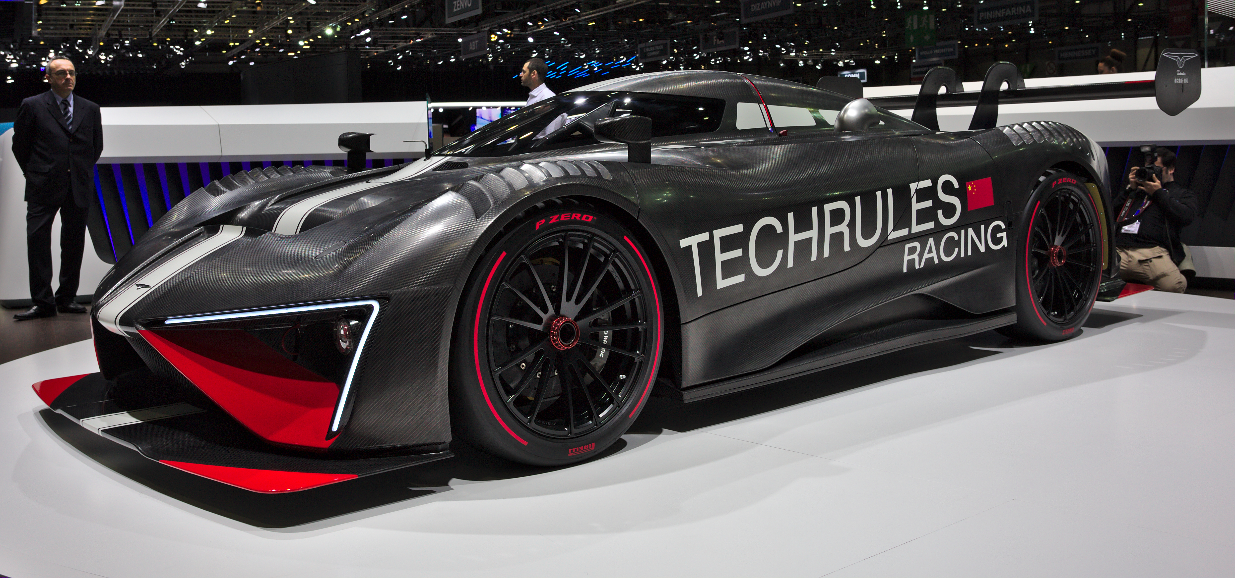 Techrules Ren RS at Geneva Motorshow 2018